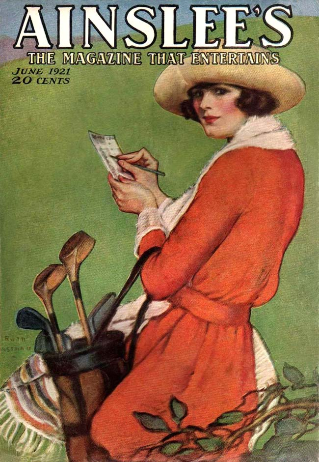 Front cover of Ainslee's Magazine, June 1921 issue